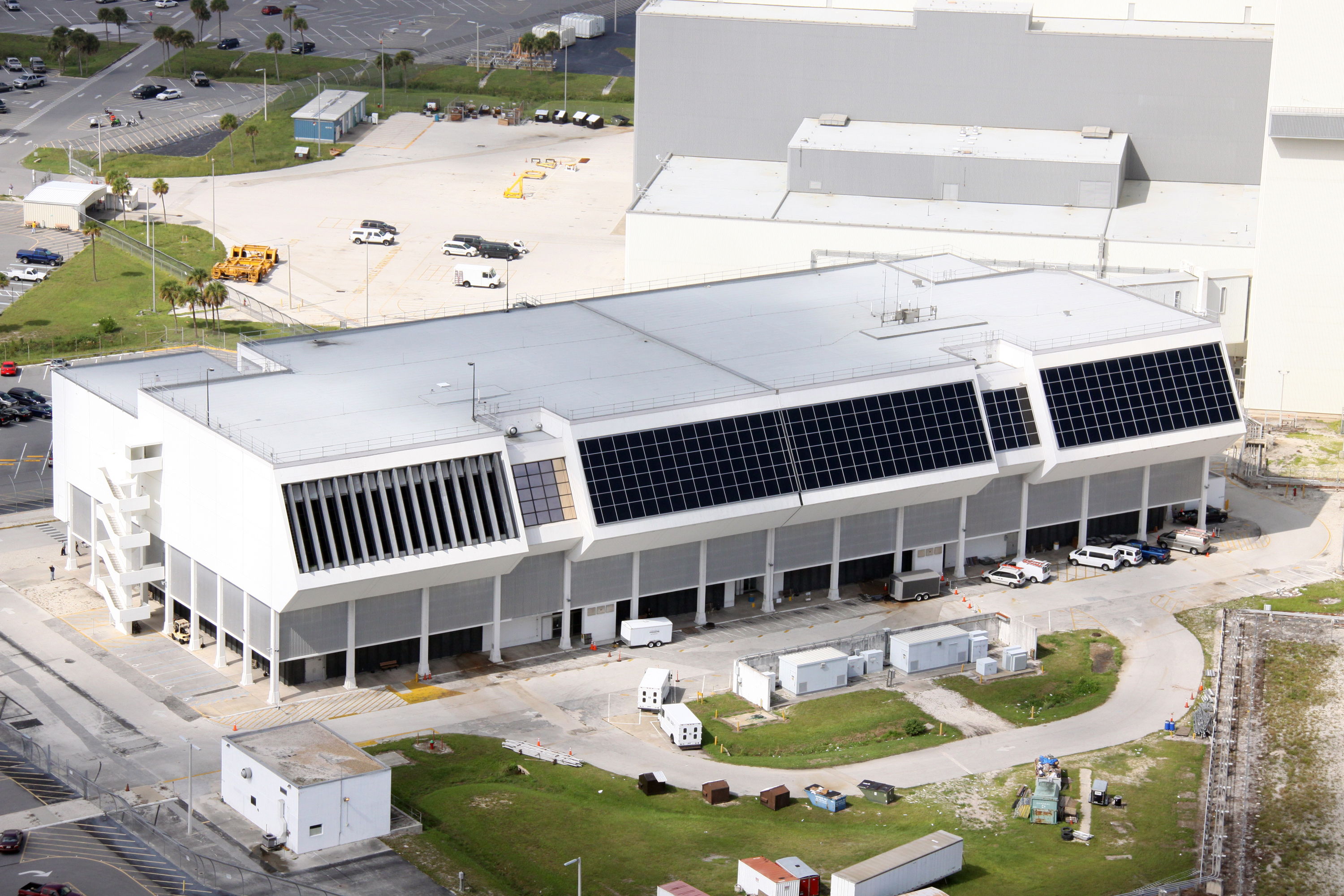 This aerial view shows NASA Kennedy Space Center's Launch Control Center with its new hurricane-rated window systems installed in the four Firing Rooms.